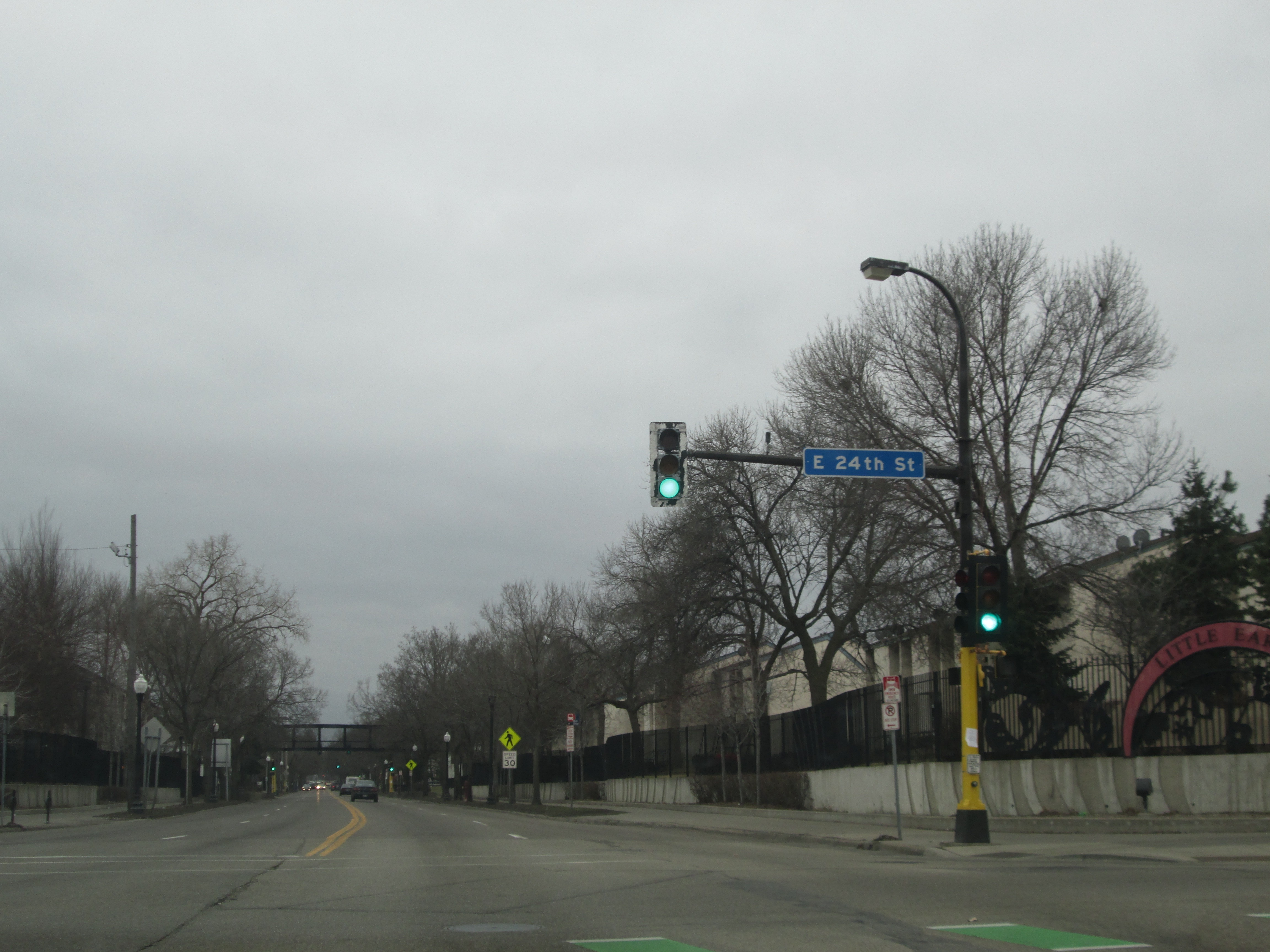 Cedar Avenue (Hennepin CSAH 152) in Minneapolis near Hiawatha Avenue (MN 55.)